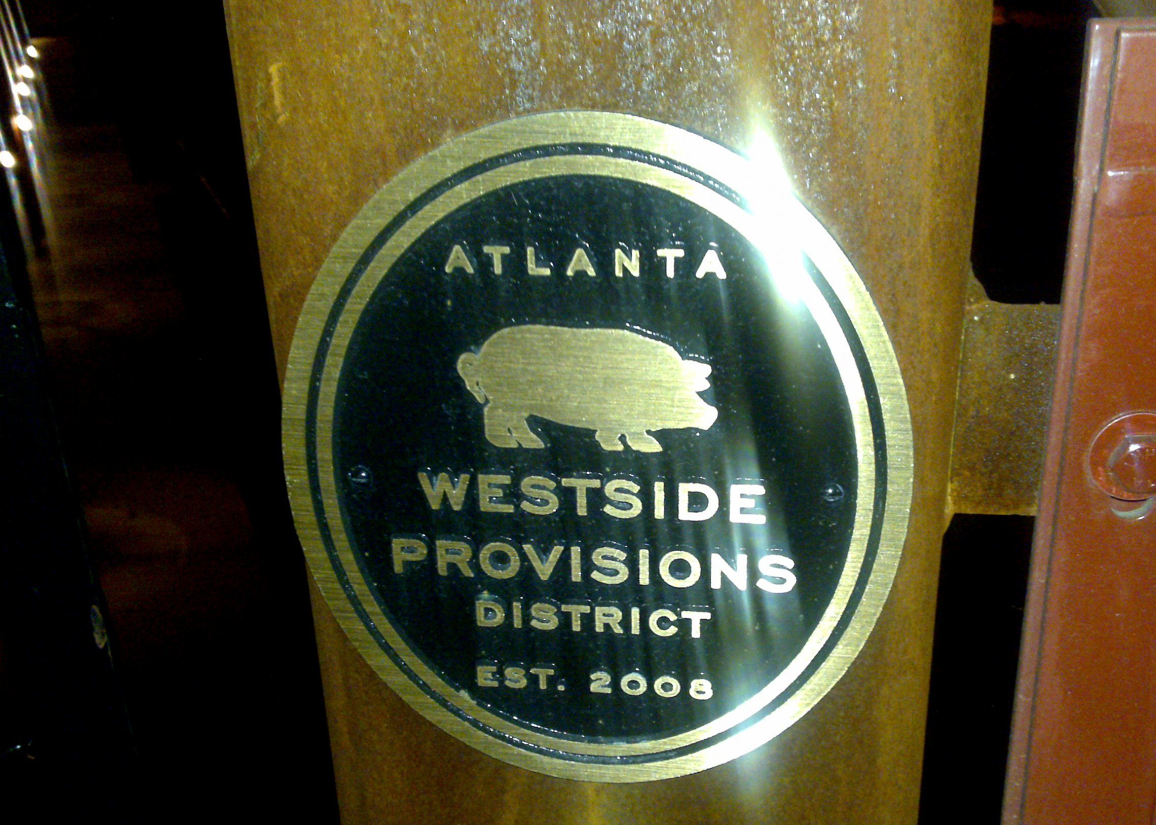 Over the tracks from Howell Mill culinary center. Bridge walkway. Currently home of Abattoir.